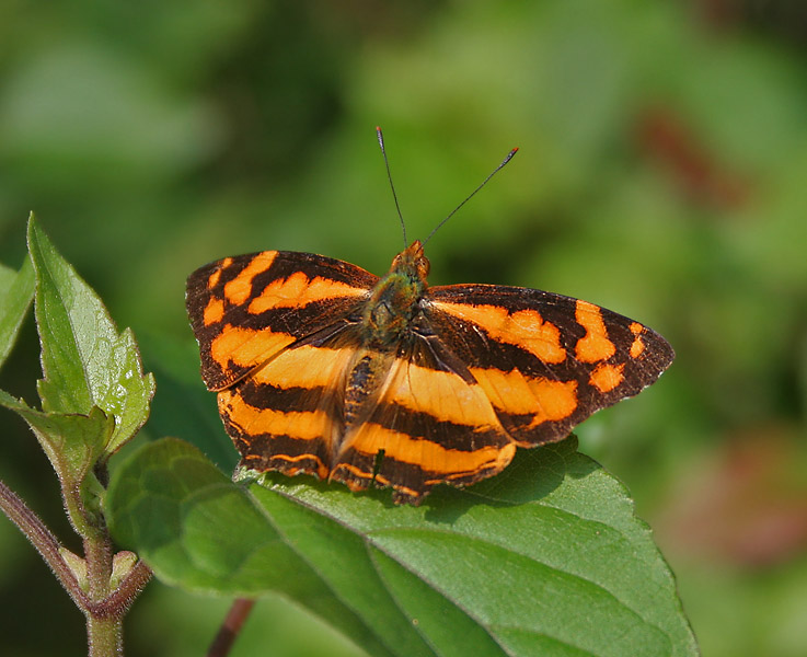 Common Jestor Symbrenthia lilaea at Samsing in Darjeeling district of West Bengal, India.